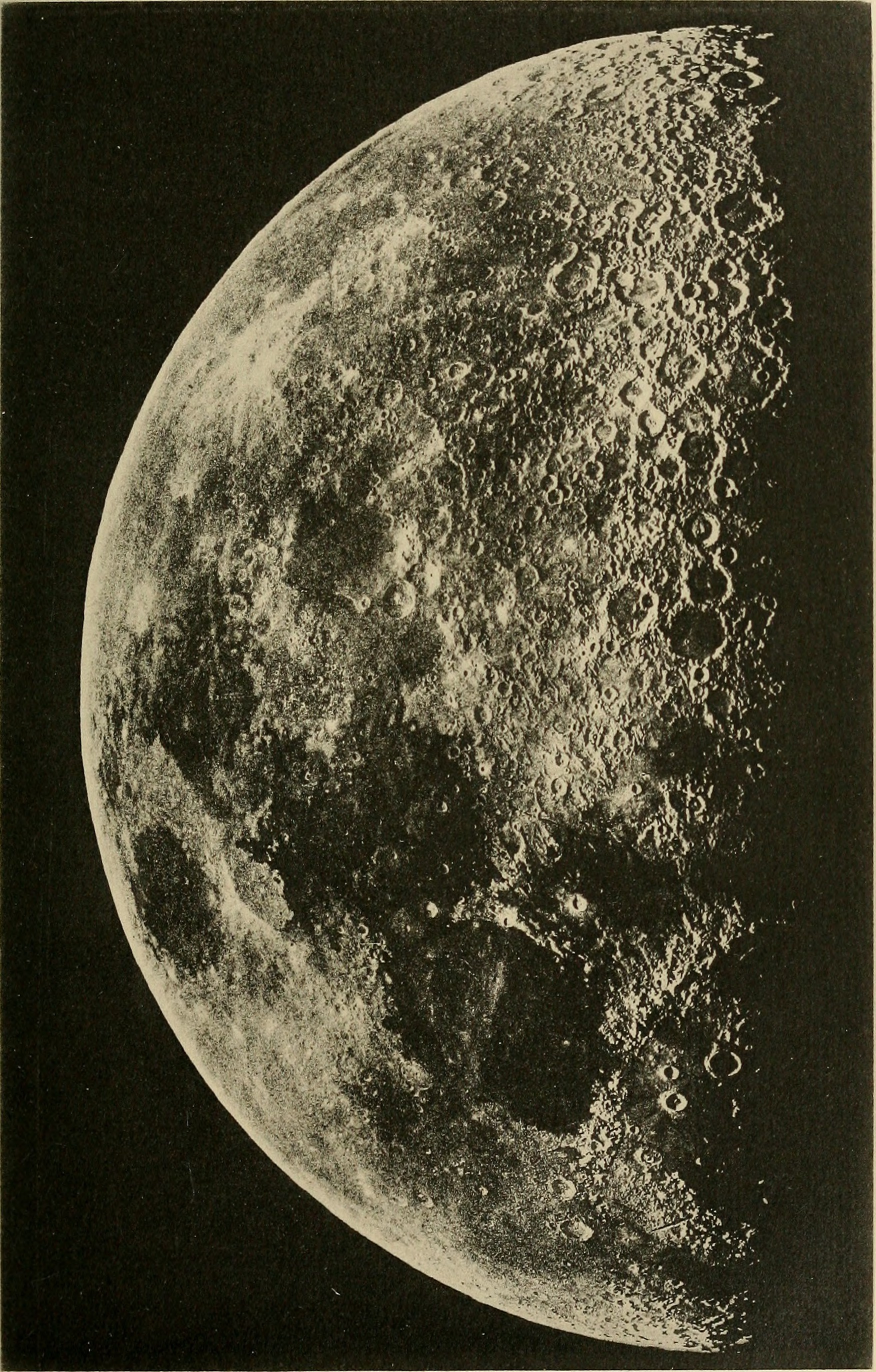 Title: Annual report of the Board of Regents of the Smithsonian Institution Year: 1846 (1840s) Authors: Smithsonian Institution. Board of Regents; United States National Museum. Report of the U. S. National Museum; Smithsonian Institution. Report of the Secretary Subjects: Smithsonian Institution; Smithsonian Institution. Archives; Discoveries in science Publisher: Washington : Smithsonian Institution Text Appearing Before Image: Smithsonian Report. 1898 — Loewy and Puiseux. Plate II. Text Appearing After Image: The Moon: Age, 7 Days, 21 Hours. From, photograph, taken, at Observatory of Paris.